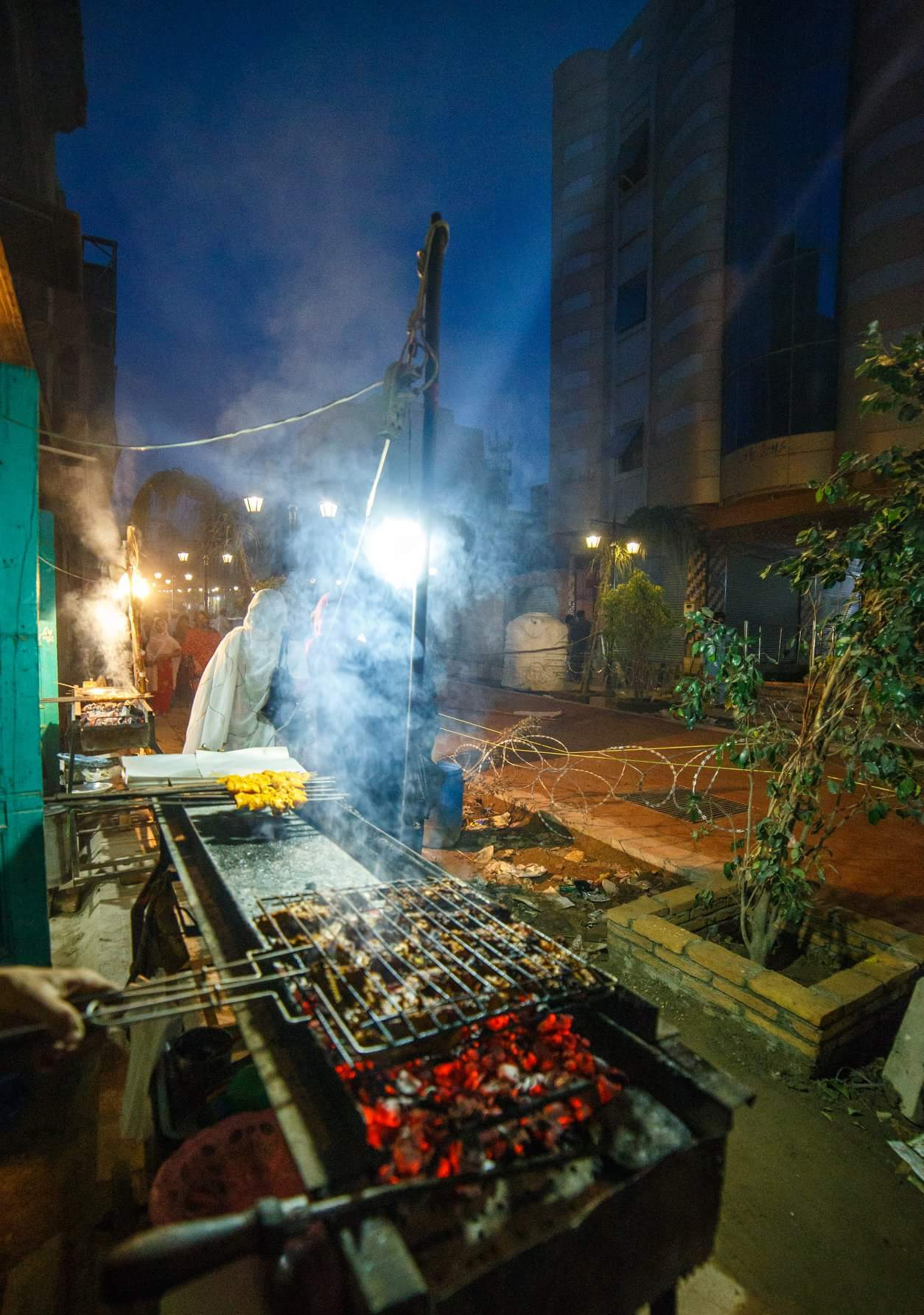 BBQ shop located at Food Street Peshawar-Pakistan